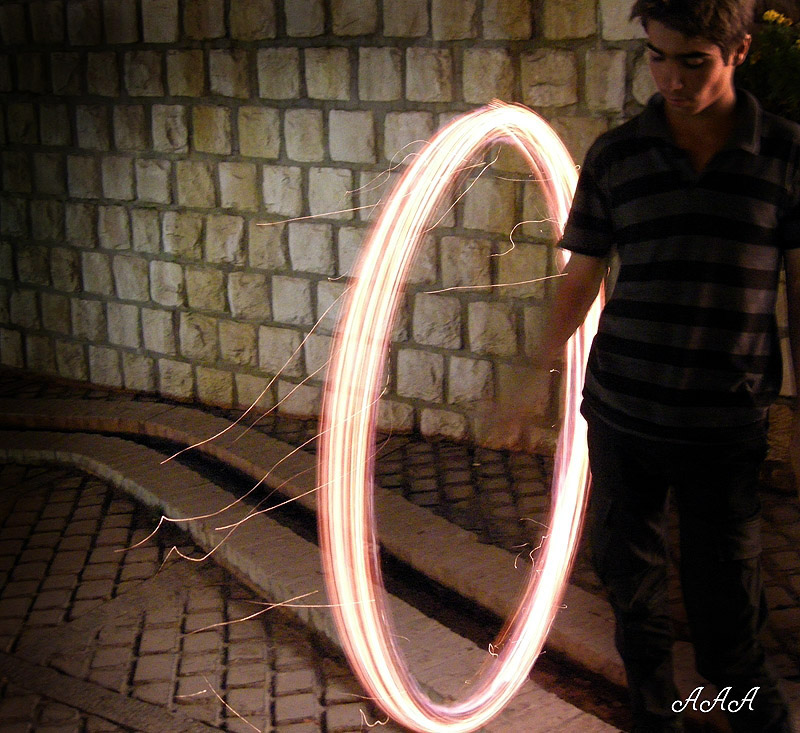 A person spins coals for hookah.